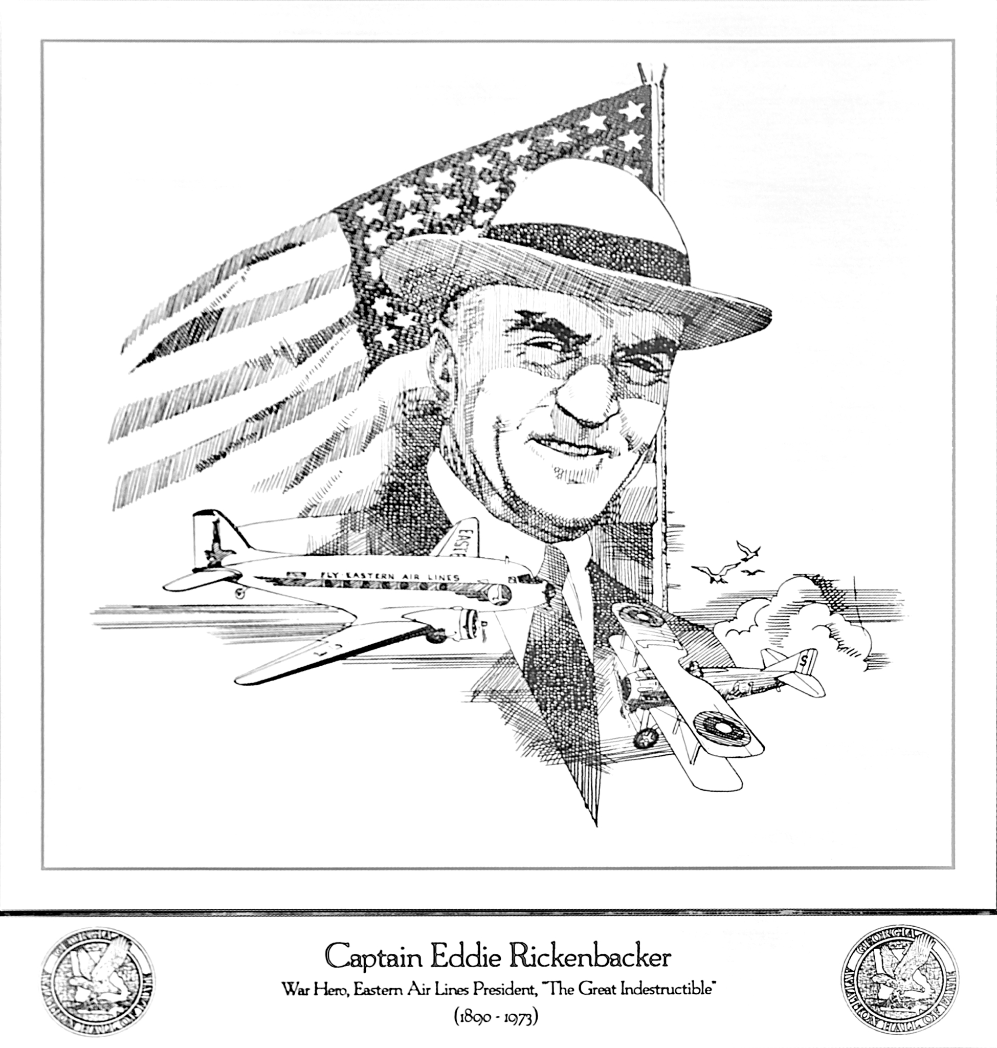 Captain Eddie Rickenbacker